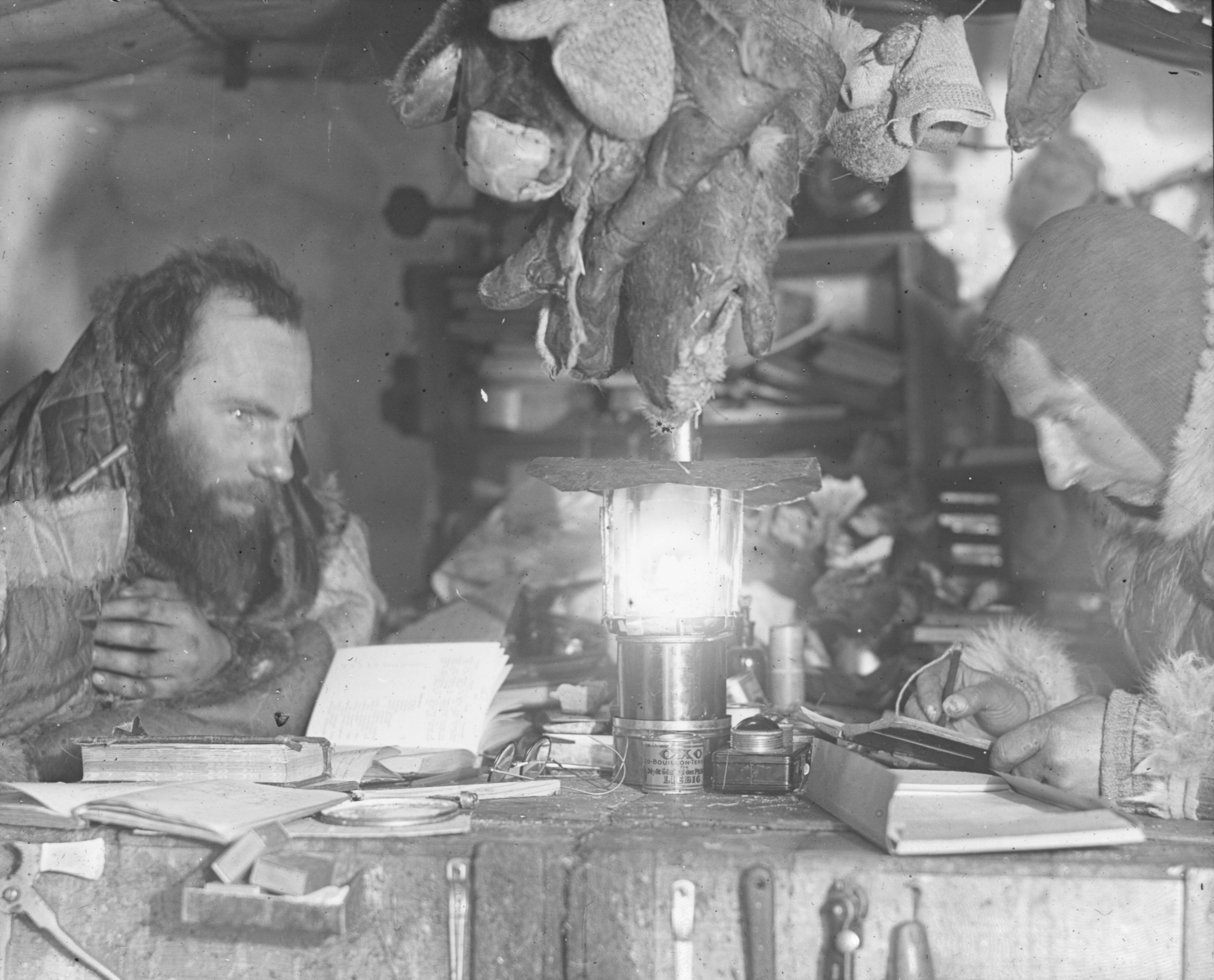 Photographs of the German expedition and overwintering in Greenland in 1930/31